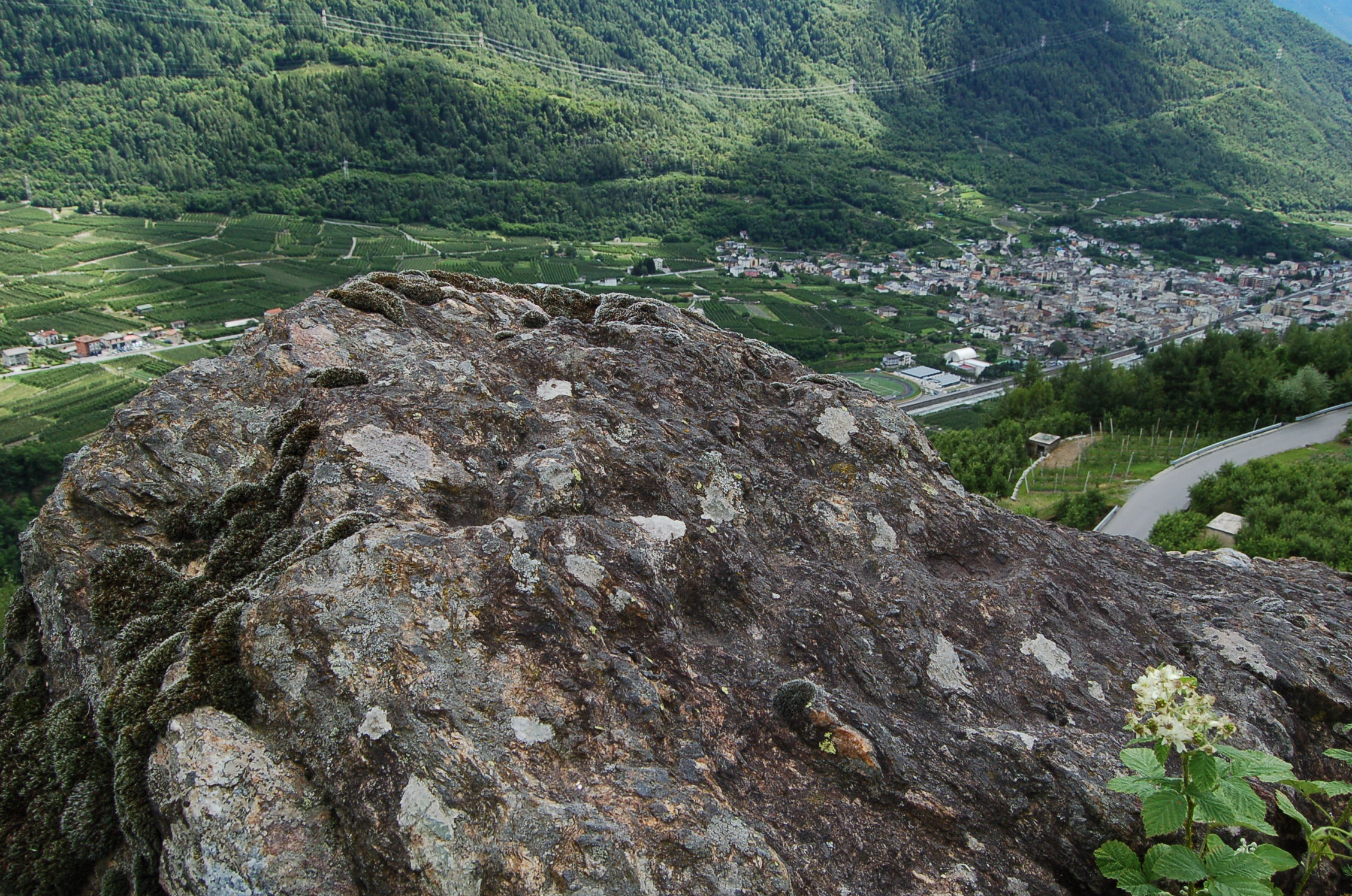 Baruffini coppelle sul sasso Becco d'aquila Tirano Sondrio